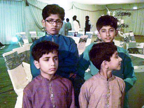 Top left Syed Fahad Mehmood, Bottom Left Syed Mughees Rehman, Top Right Syed Muqeem Mehmood, Bottom Right Syed Muneeb Rehman